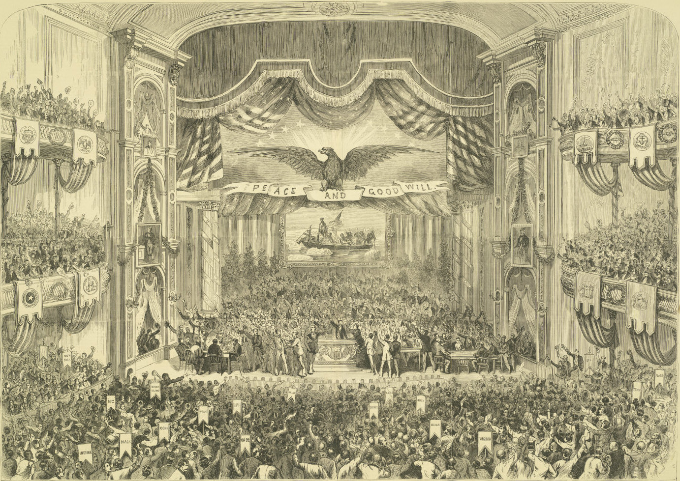 Collection: Cornell University Collection of Political Americana, Cornell University Library Repository: Susan H. Douglas Political Americana Collection, #2214 Rare & Manuscript Collections, Cornell University Library, Cornell University Title: Maryland - The National Democratic Convention Political Party: Democratic Election Year: 1872 Date Made: 1872 Measurement: Sheet: 16 x 22 in.; 40.64 x 55.88 cm Classification: Publications Persistent URI: There are no known U.S. copyright restrictions on this image. The digital file is owned by the Cornell University Library which is making it freely available with the request that, when possible, the Library be credited as its source.